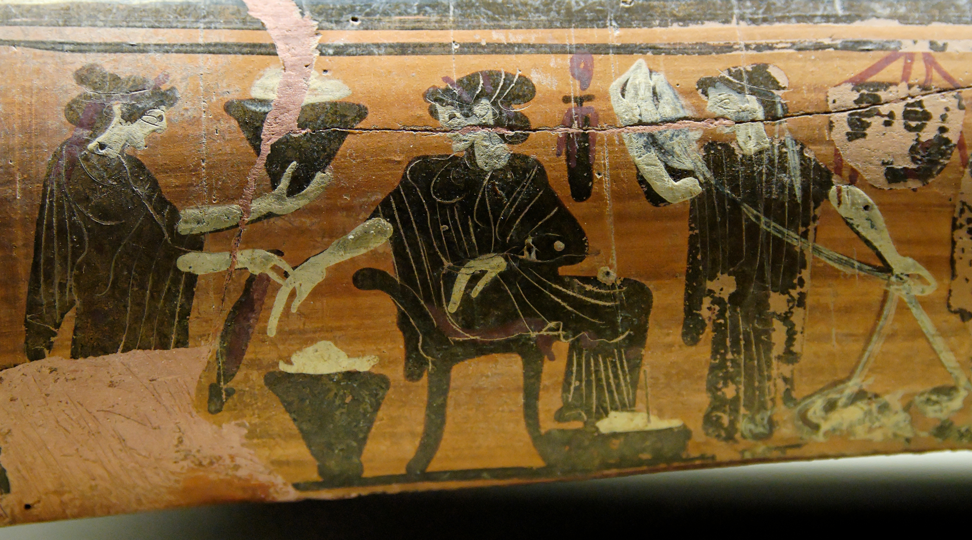 Gynaeceum scene: women weaving. Detail from an Attic black-figure epinetron.